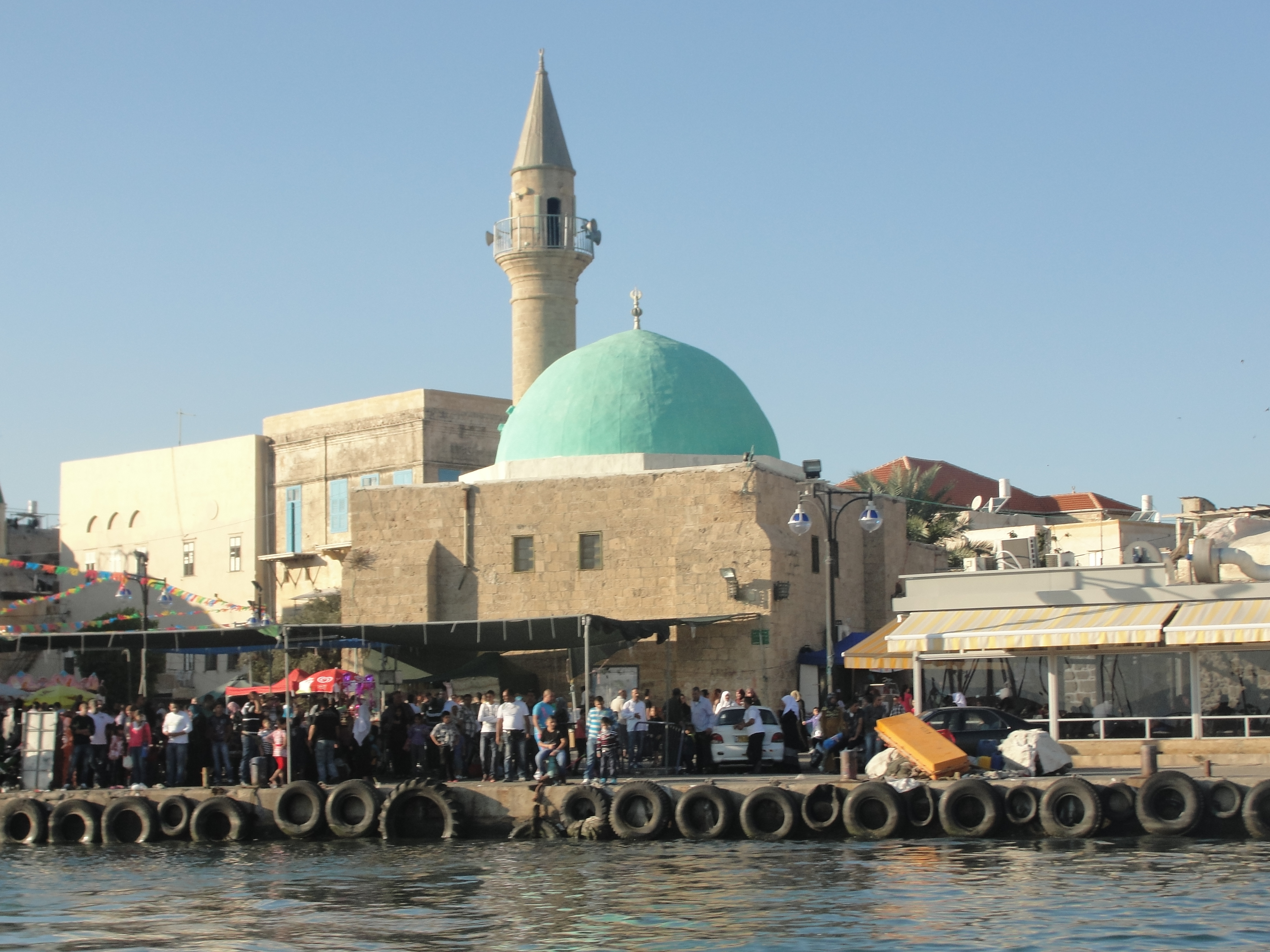 Geography of Israel